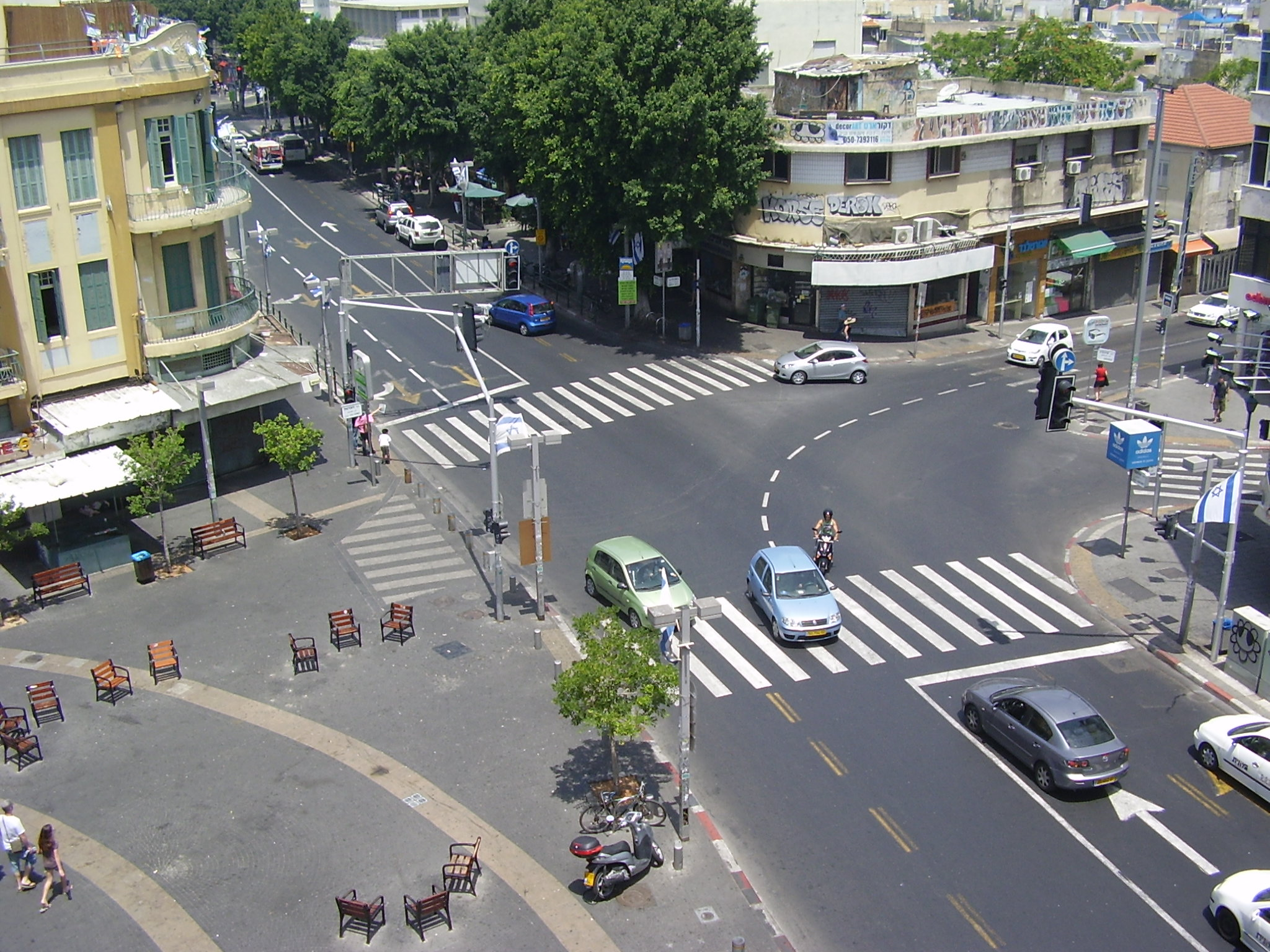 magen david square in tel aviv